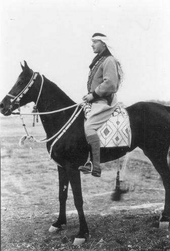 Fawzi al-Quawuqji 24th May 1948